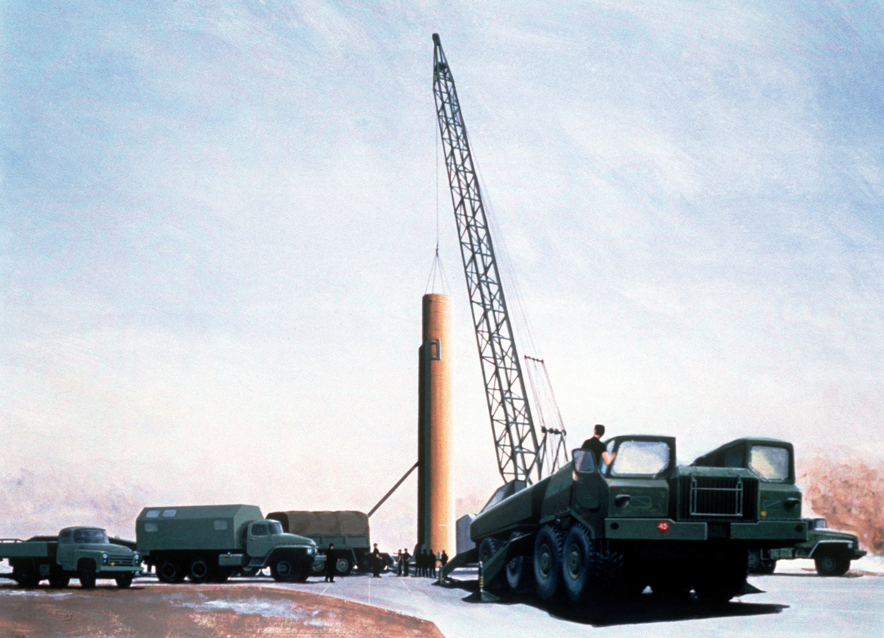 SOVIET SS-18 MOD 5 INTERCONTINENTAL BALLISTIC MISSILE The silo-launched SS-18 Mod 5 was the core of the Soviet Union's modernized ICBM arsenal in the 1980's. The SS-18 featured hard-target-kill capability and ten nuclear warheads on each missile. The Soviets converted silos to replace the older version SS-18 Satan with the MOD 5